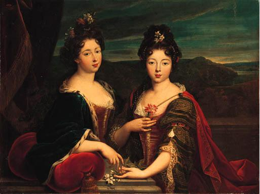 Portrait of Marie of Lorraine (1674-1724), Duchess of Valentinois, future Princess of Monaco, with her younger sister Charlotte of Lorraine (1678-1757), Mademoiselle d'Armagnac, before a parapet, a landscape beyond